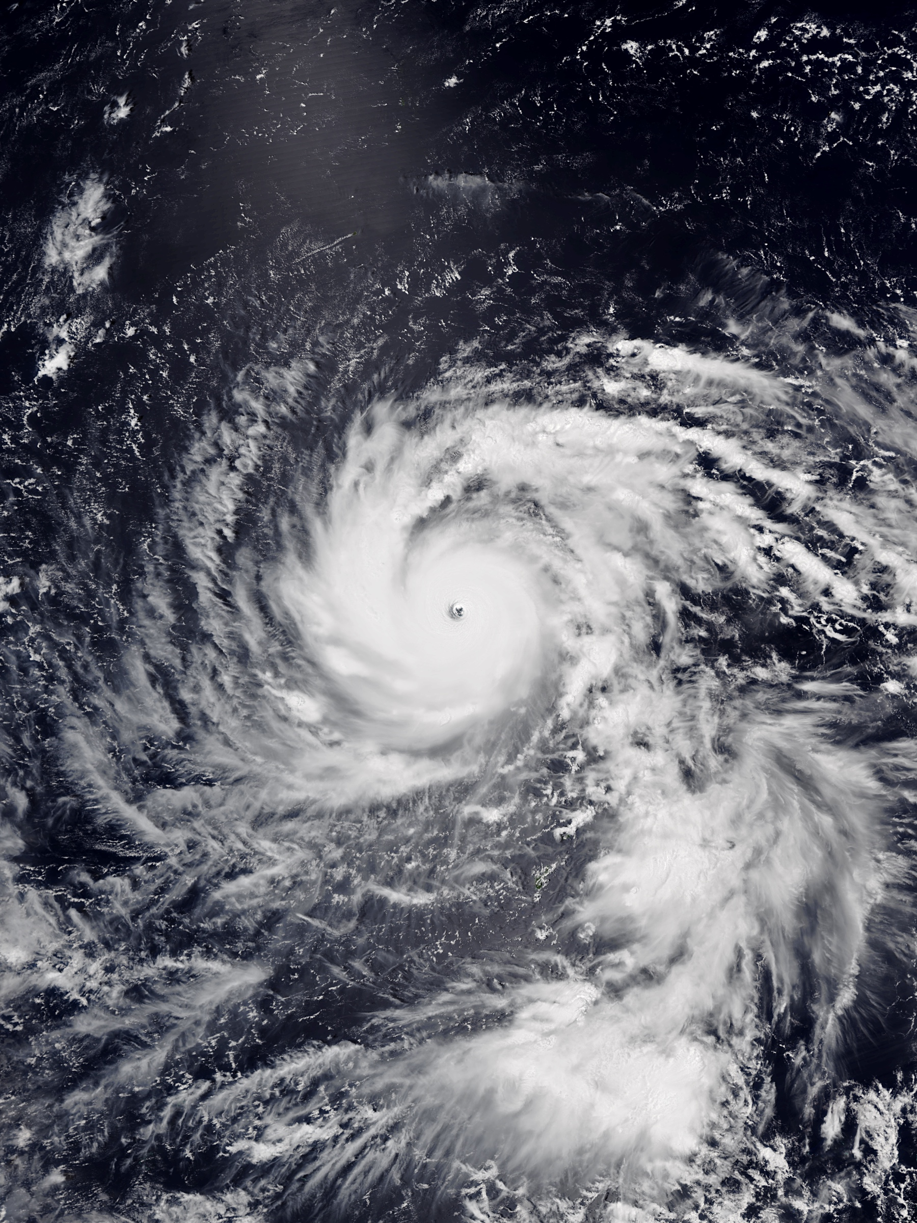 Typhoon Jebi at peak intensity west of the Northern Mariana Islands on August 31, 2018.